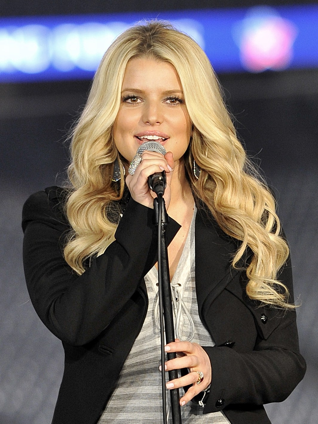 Jessica Simpson singing "God Bless America" to military families at the "Joining Forces with the Rockies: Celebrating Military Families" at Coors Field in Denver, on April 13, 2011.